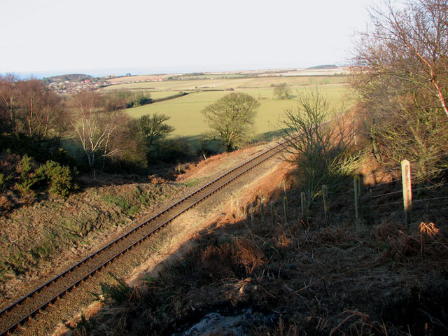 The North Norfolk Railway through Kelling Heath The village of Weybourne can be seen in the distance, and the North Sea beyond.